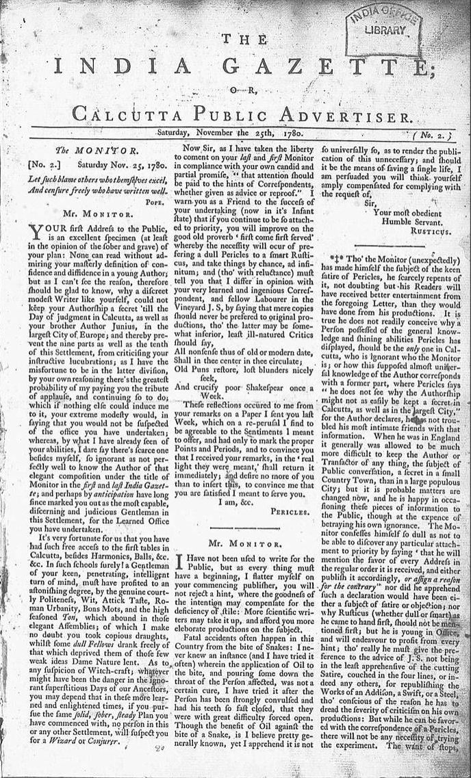 India Gazette of 25 November 1780 from the British Library